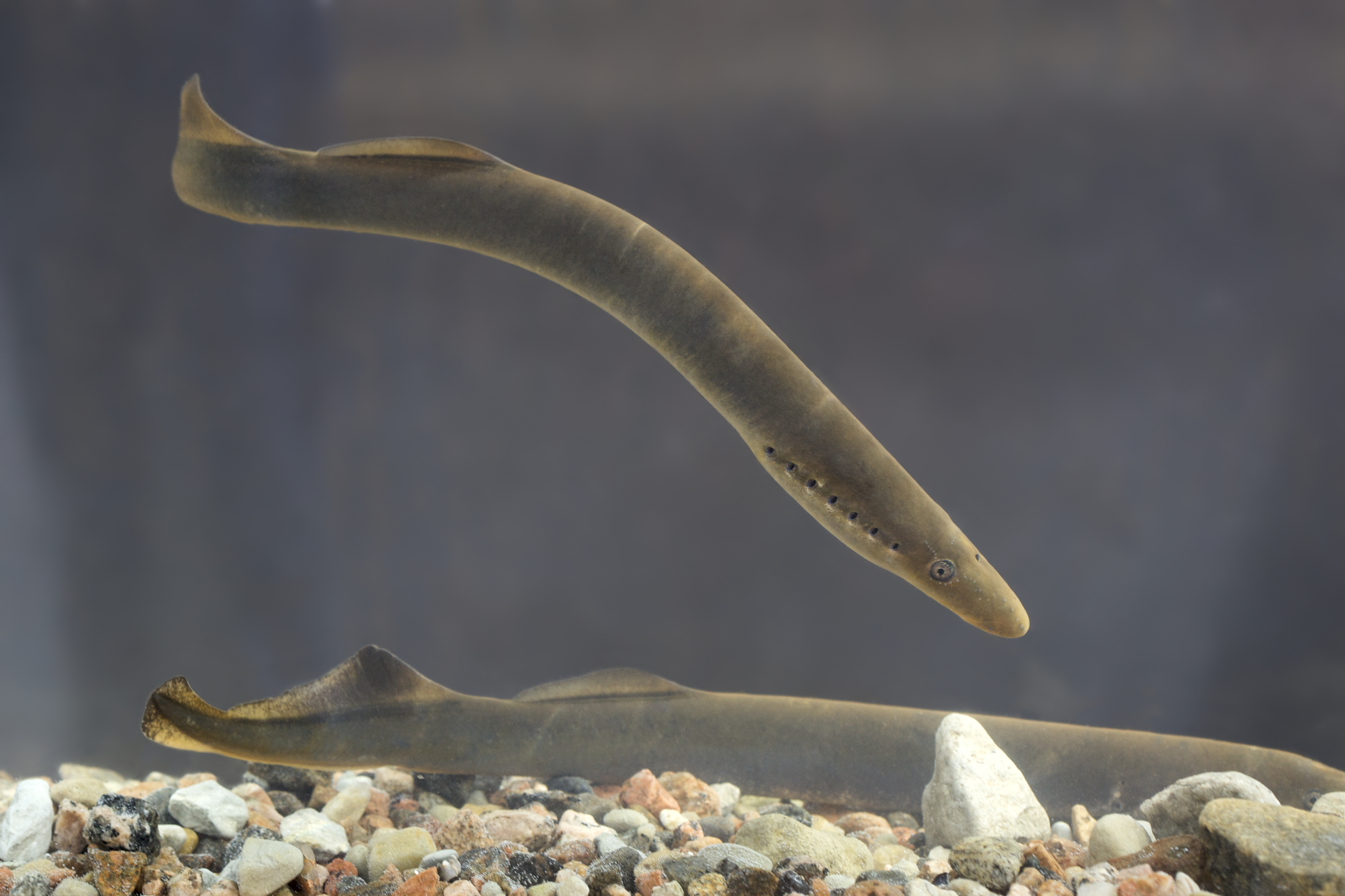 Lampetra fluviatilis in Pirita river, Estonia.